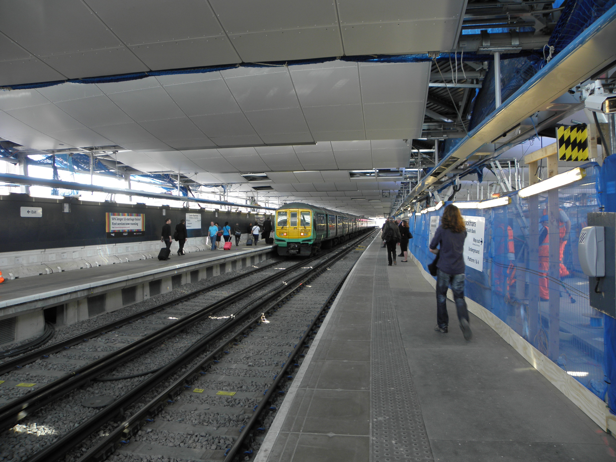 Blackfriars railway station looking south along the newly rebuilt through platforms, shown in 2012. The newly constructed bay platforms are out of view to the right. Original bays were to the east (left) of the through platforms.